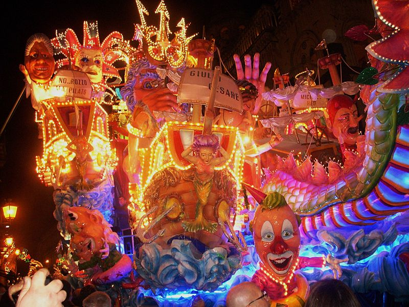 Carnival float in Acireale, Sicily